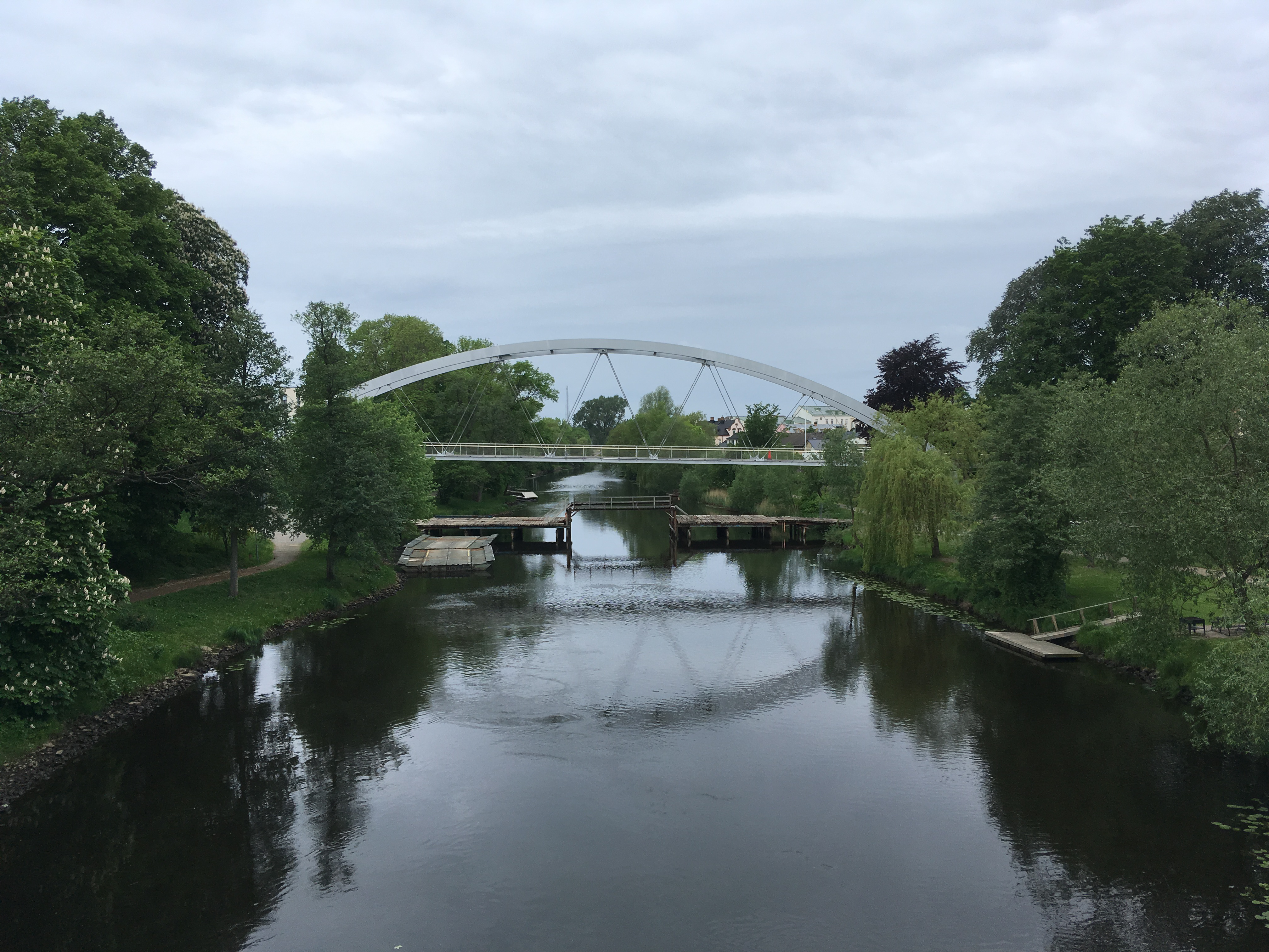 Tullportsbron, bridge constructed in 2017 in Ängelholm, Sweden. Some staging is still in place under the bridge. Note bridge is not level – camera was.